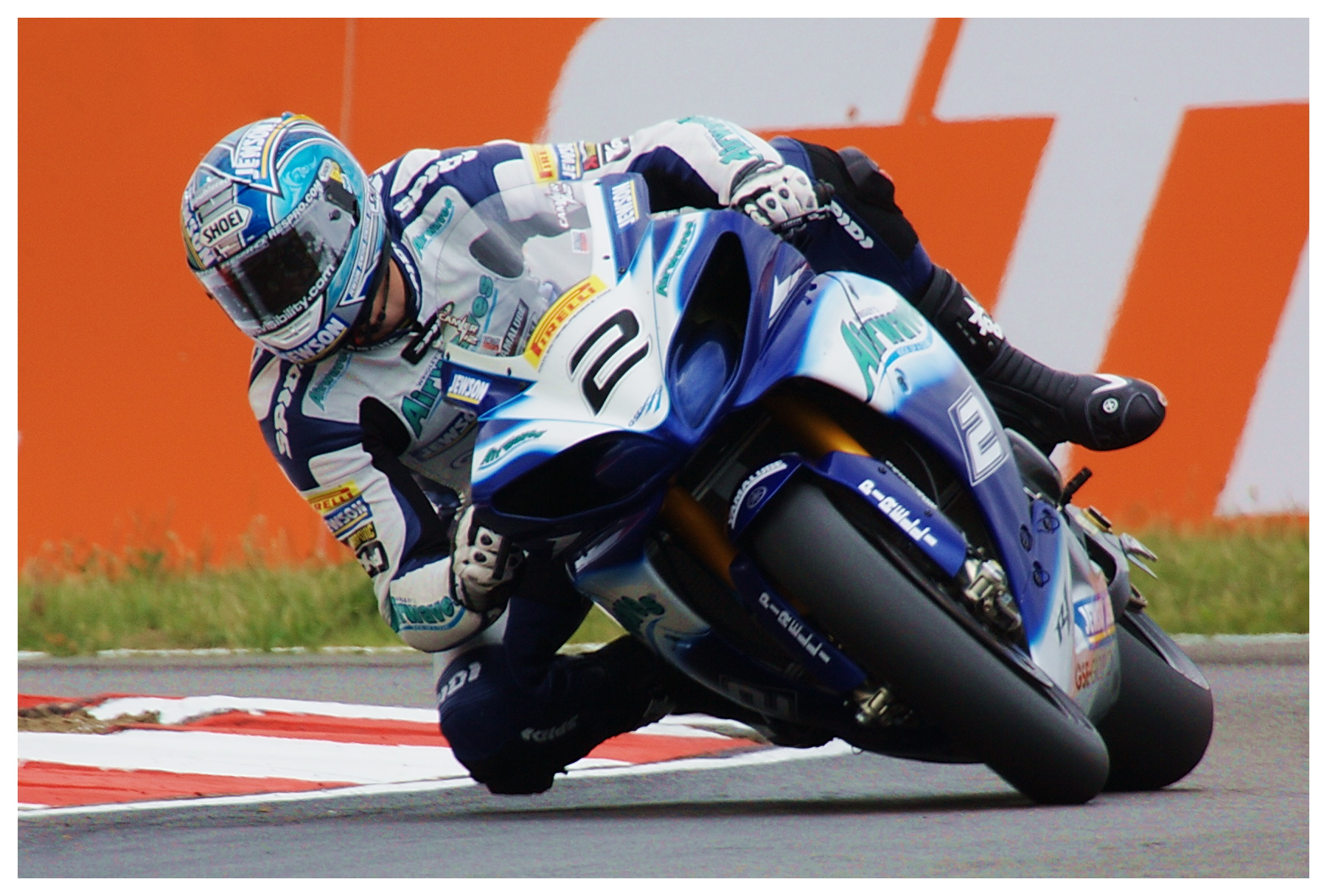 Leon Camier ~ Airwaves Yamaha (British Superbikes)